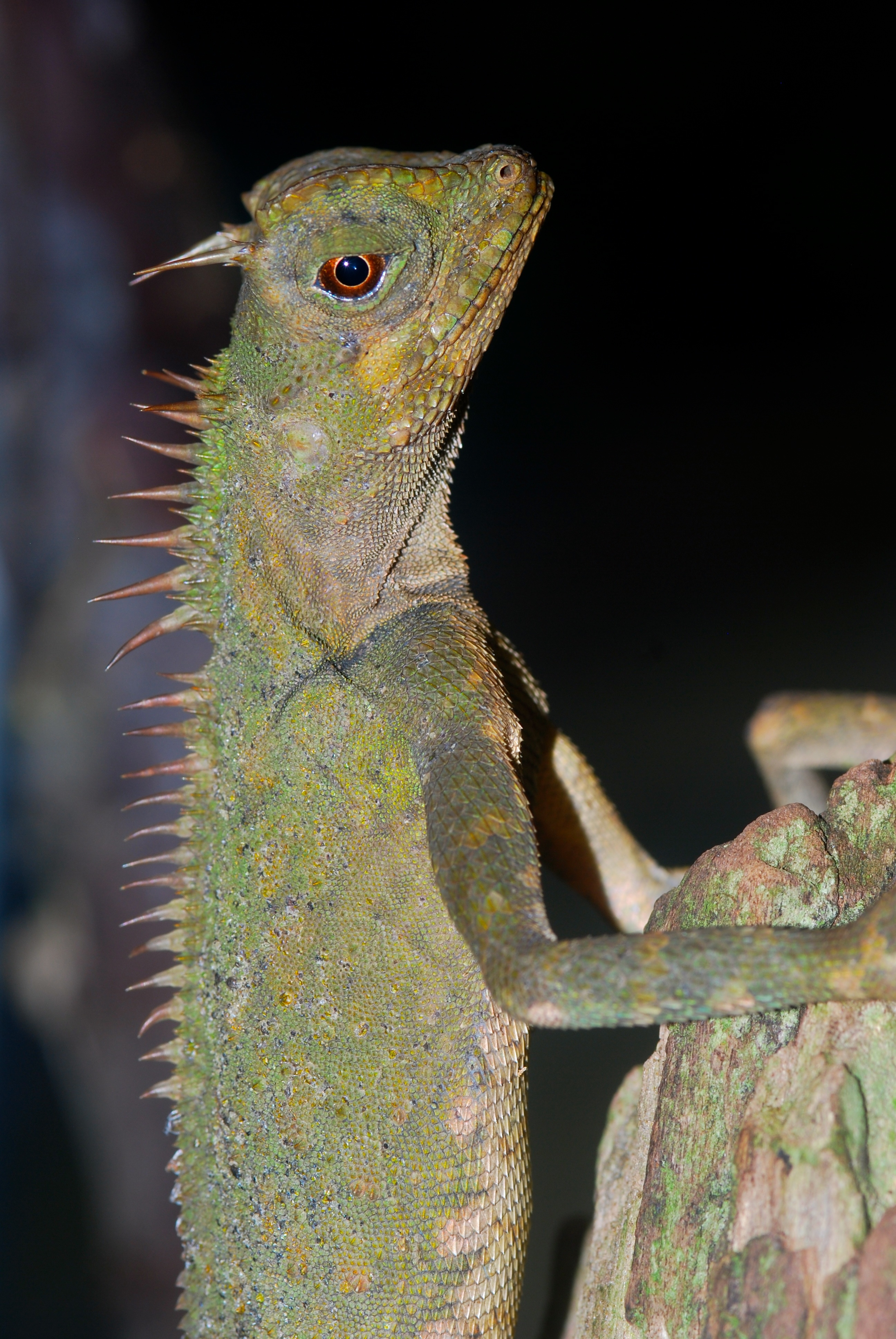 Butterfly Farm, Brinchang, Cameron Highlands, Pahang, MALAYSIA